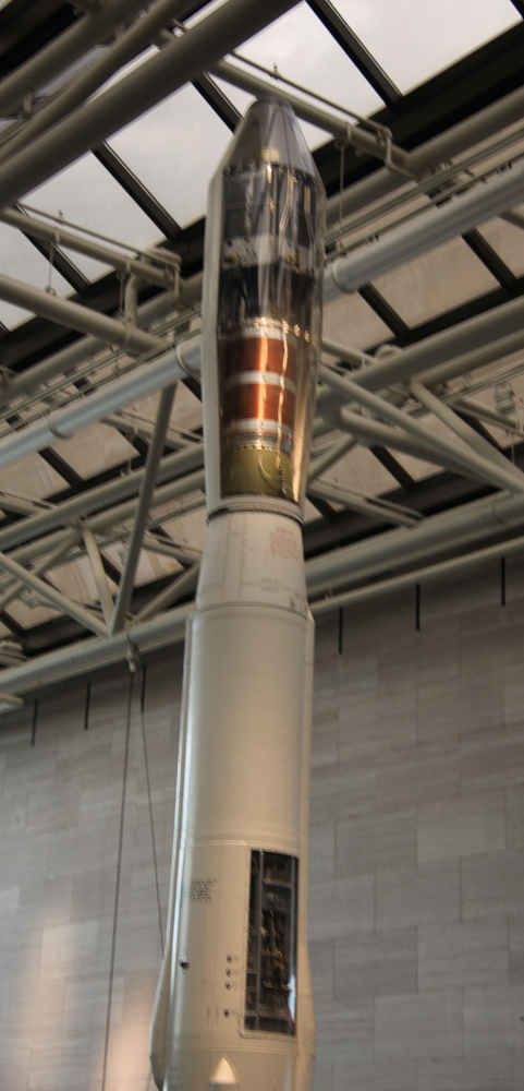 A Scout-D orbital rocket with cutaway sections showing the motor in the fourth stage and the payload in the payload nosecone. The Scout was a class of rocket developed jointly by NASA and the U.S. Air Force to get small satellites into orbit. Scout is actually an acronym; it stands for "Solid Controlled Orbital Utility Test system". Because NASA wanted to get satellites into orbit immediately, the first Scourt rocket used off-the-shelf hardware. It was designed in 1957 at the Langley space center. Because solid fuel was easier to deal with, each stage of the Scout was a solid fuel rocket. There were four stages. The "Algol" first stage used an Aerojet General motor previously used in the Polaris missile. The "Castor" second stage was developed using the U.S. Army's Sergeant surface-to-surface missile, and used a Thiokol motor. The "Antares" third stage used an Allegany Ballistics Laboratory motor originally used in a Vanguard rocket. The "Altair" fourth stage also used an Allegany Ballistics motor. The rocket's guidance system was gyroscopically based, and and used four fins on the first stage for stability in the atmosphere. The Scout D was first built in 1972. It used an Algol III rocket motor, which greatly improved performance and thrust. The Scout-D and the Scout G (another version with upgraded rocket motors) flew until the Scout program ended in 1994.